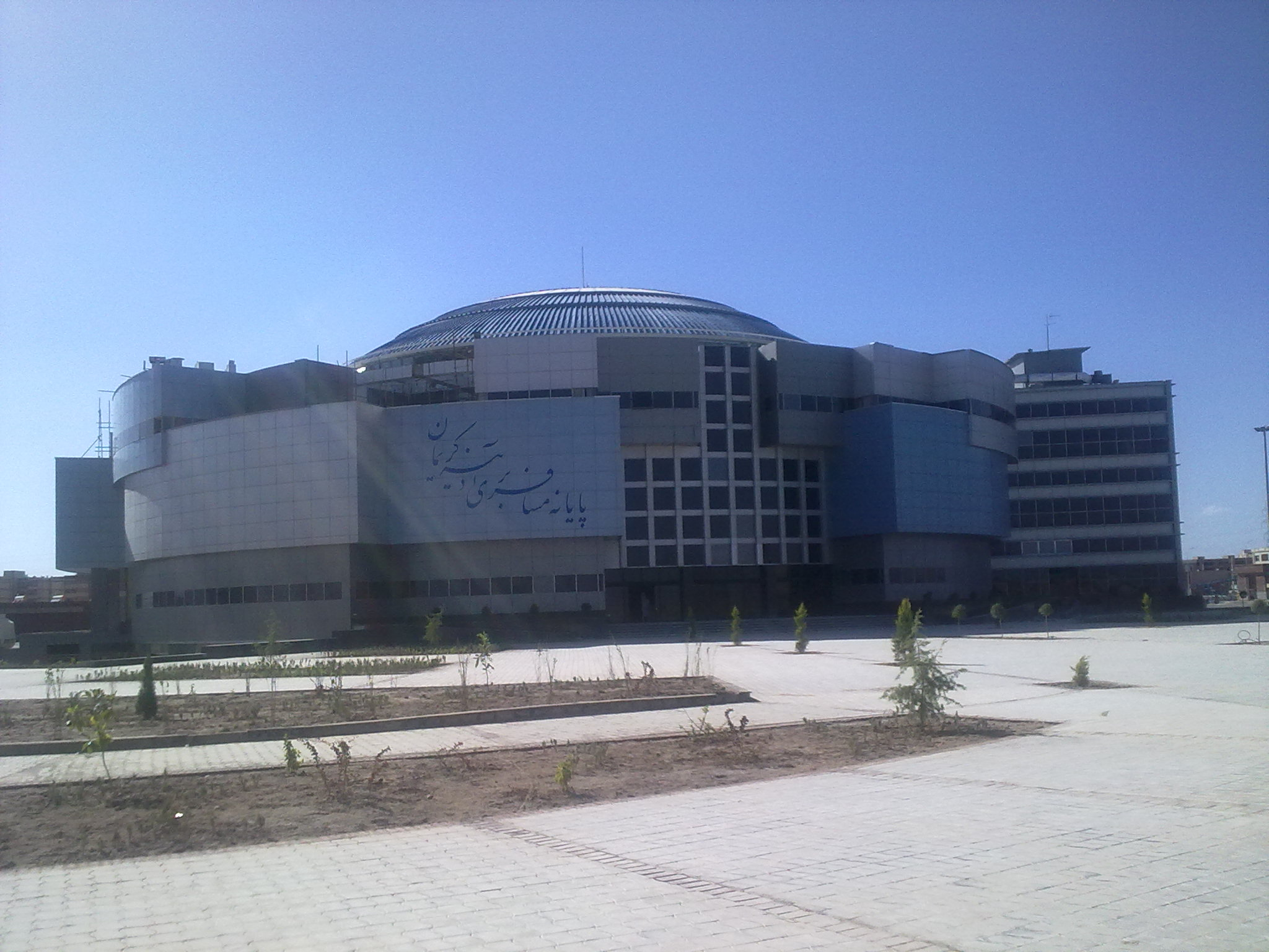 Adineh Kariman Bus terminus in city of Kerman. پایانه مسافربری آدینه ی کریمان در شهر کرمان